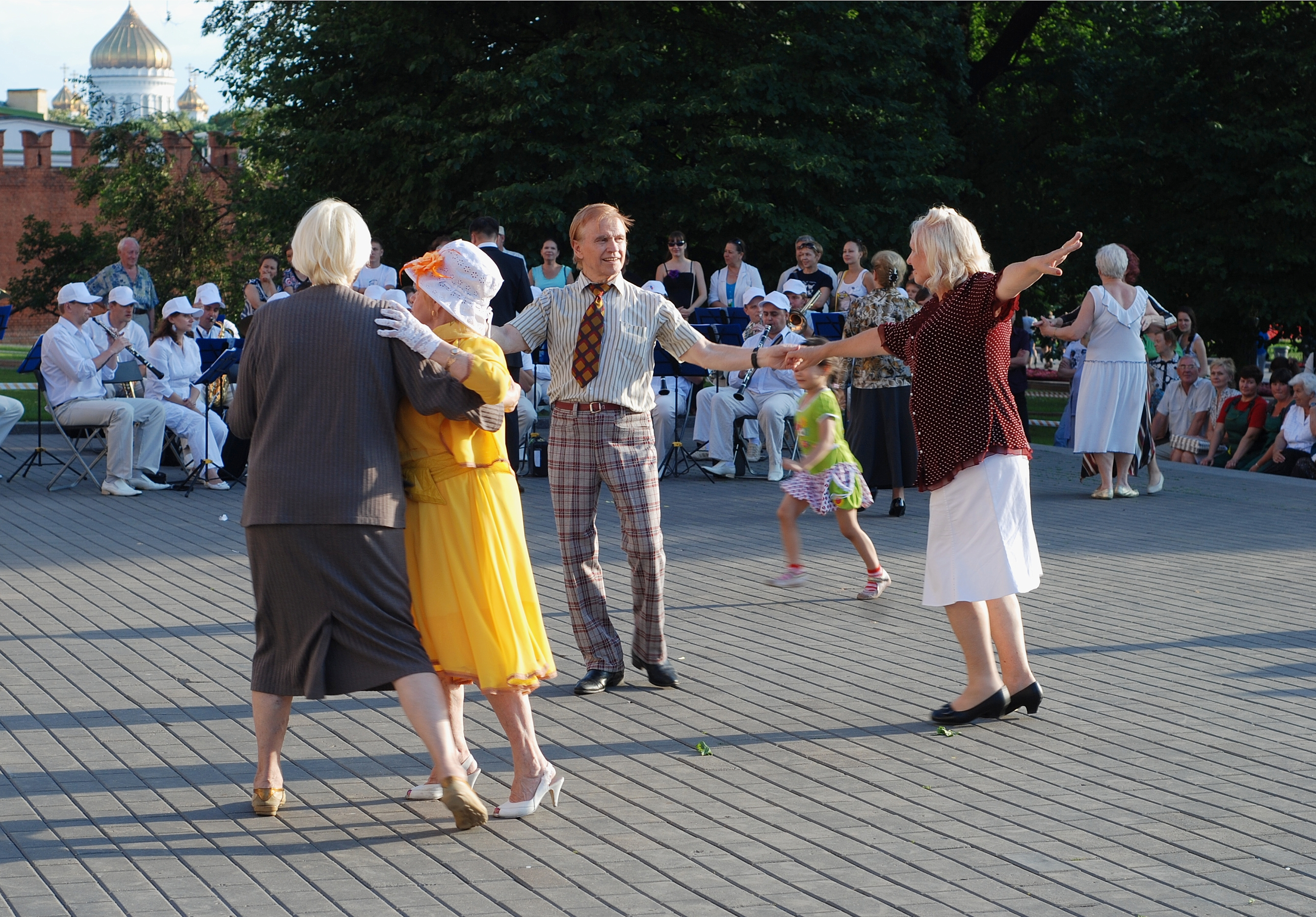 People dancing near the Kremlin, Moscow